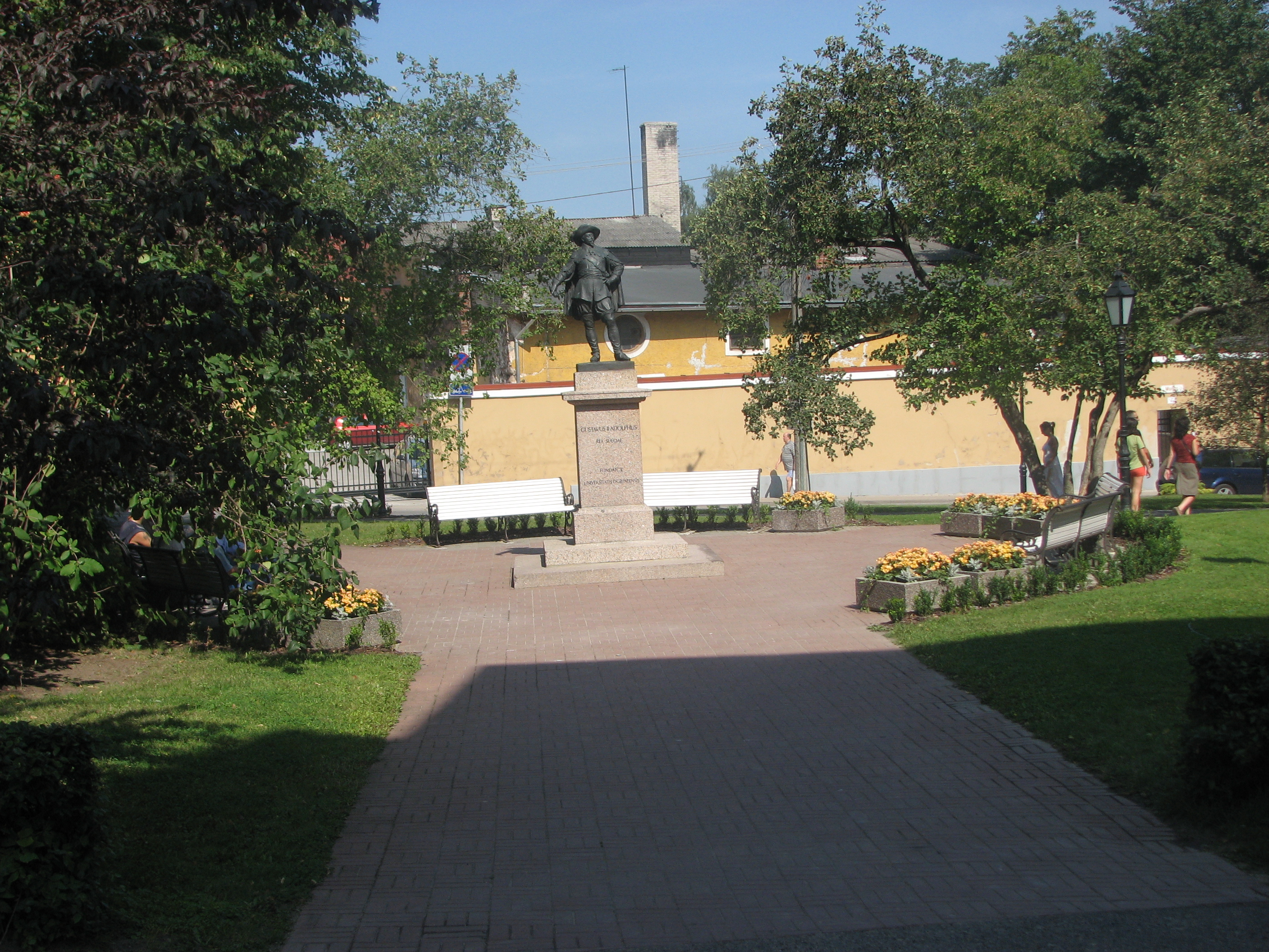 Statue of Gustav II Adolf in Tartu, Estonia